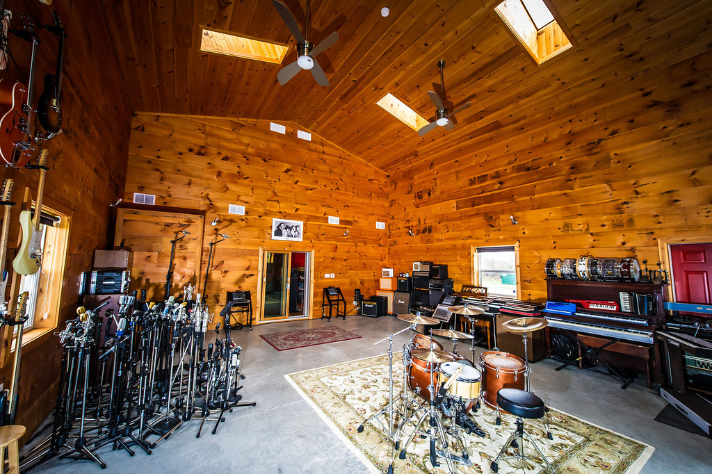 Beach Road Studios Tracking Room at Beach Road Studios owned by Siegfried Meier